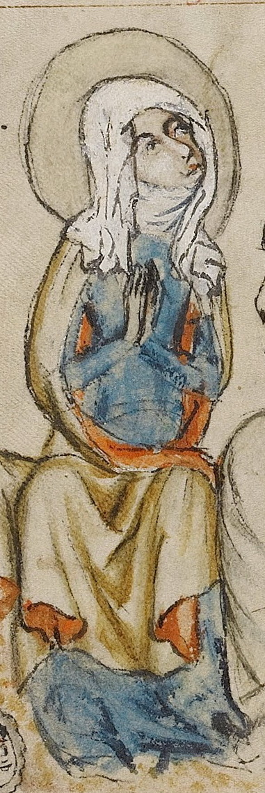 Hedwig of Andechs